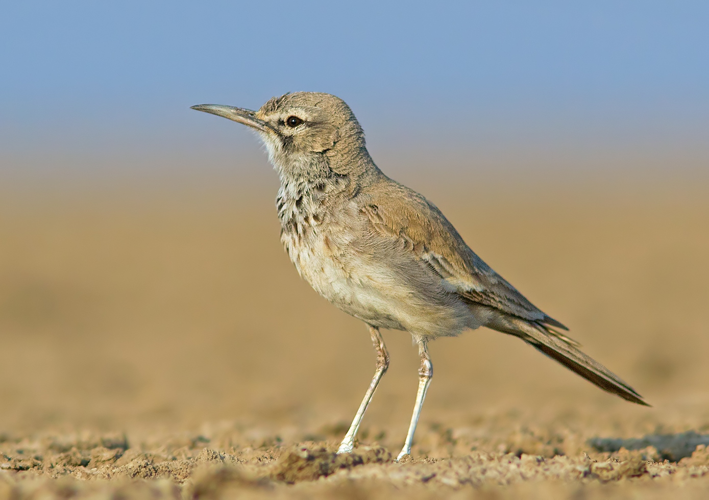 A very skittish Greater hoopoe-lark from Kutch region in India